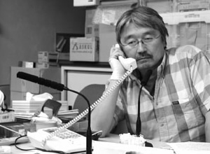 a photo of NAGAI Kenji